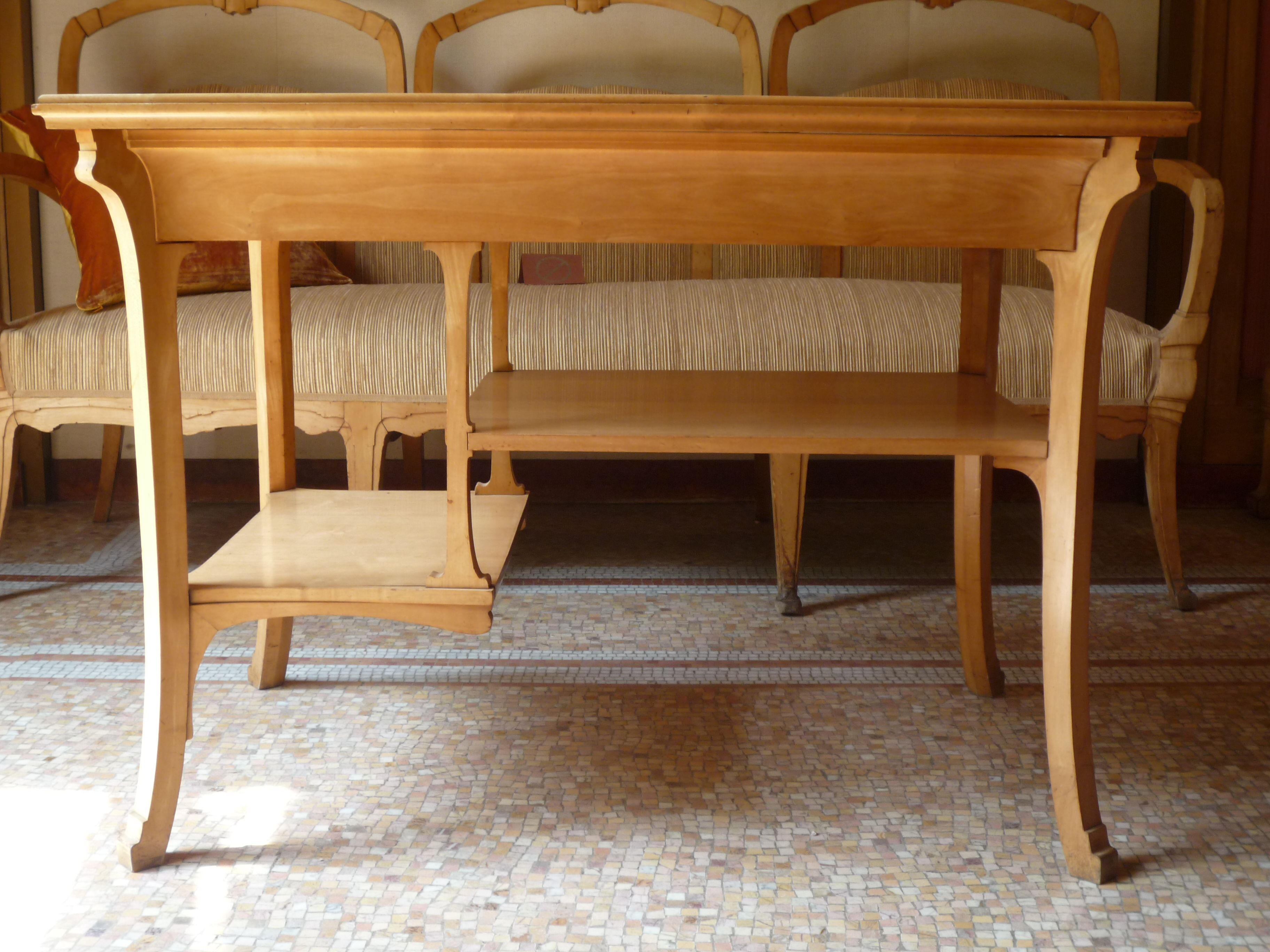 Table by Victor Horta, probably designed for the International exhibition of Turin 1902, collection Hortamuseum